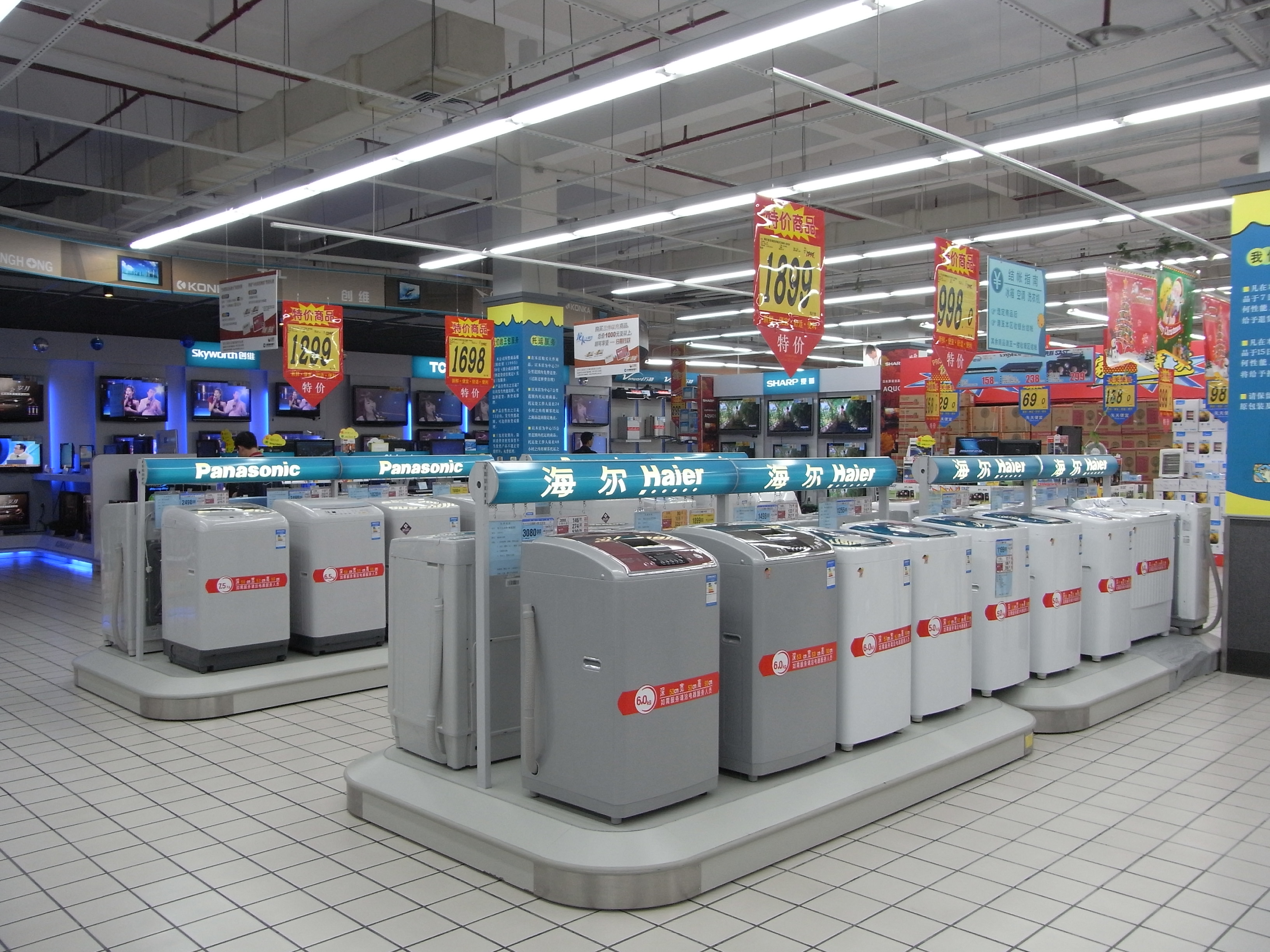 RT-Mart @ Xinhui Country Garden.